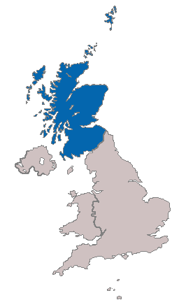 The Scottish Football Association’s jurisdiction